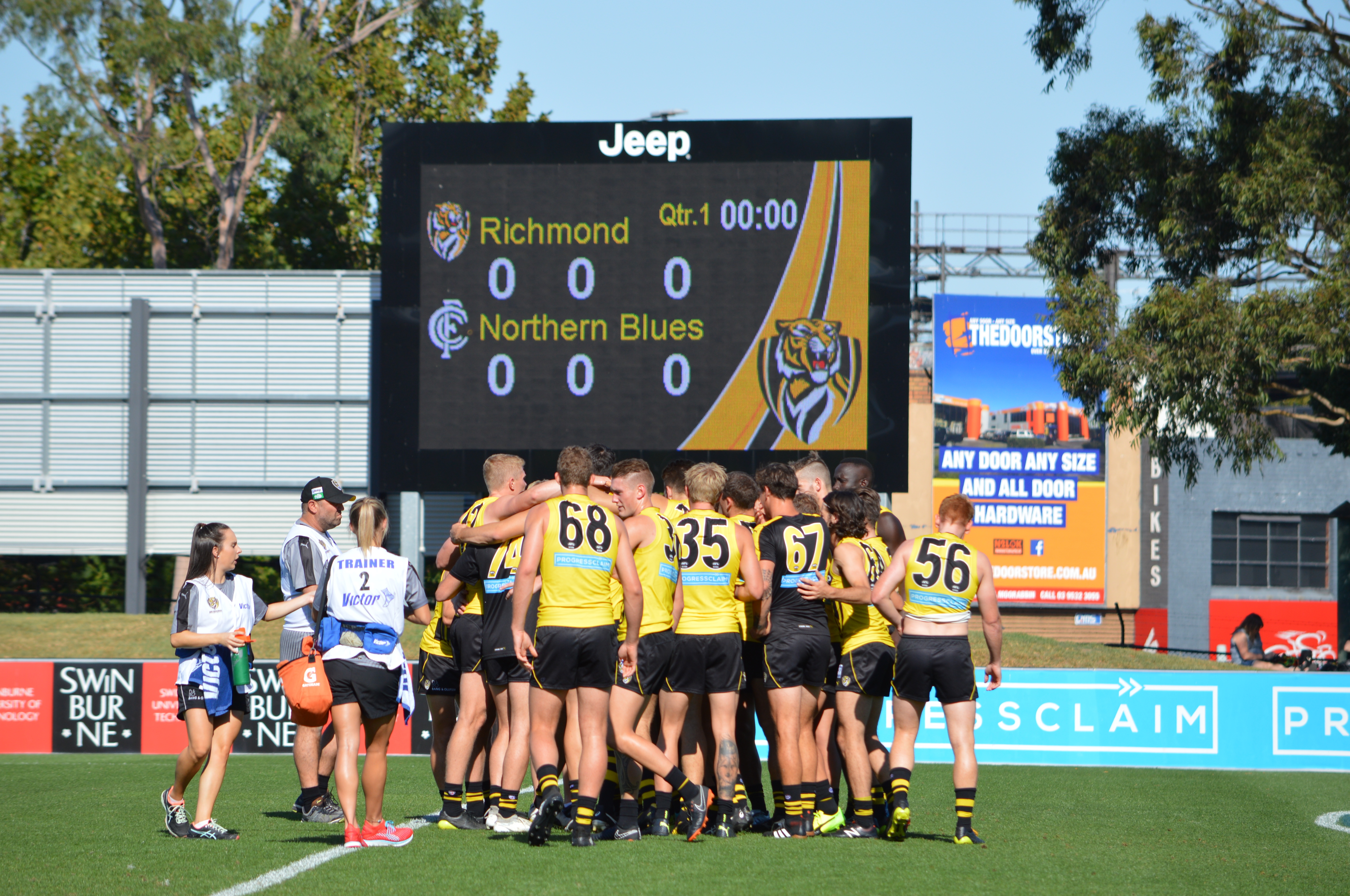 Richmond during a VFL practice match against the Northern Blues in March 2018